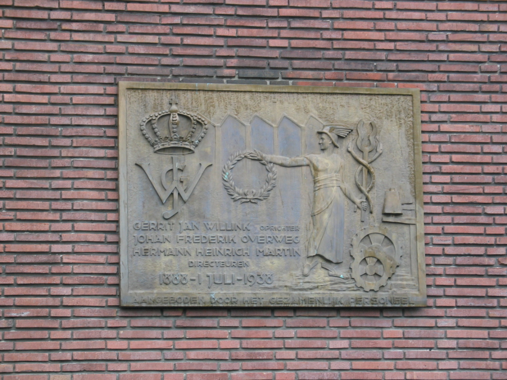 Plaque of remembrance on the Tricotfactory, Winterswijk, the Netherlands